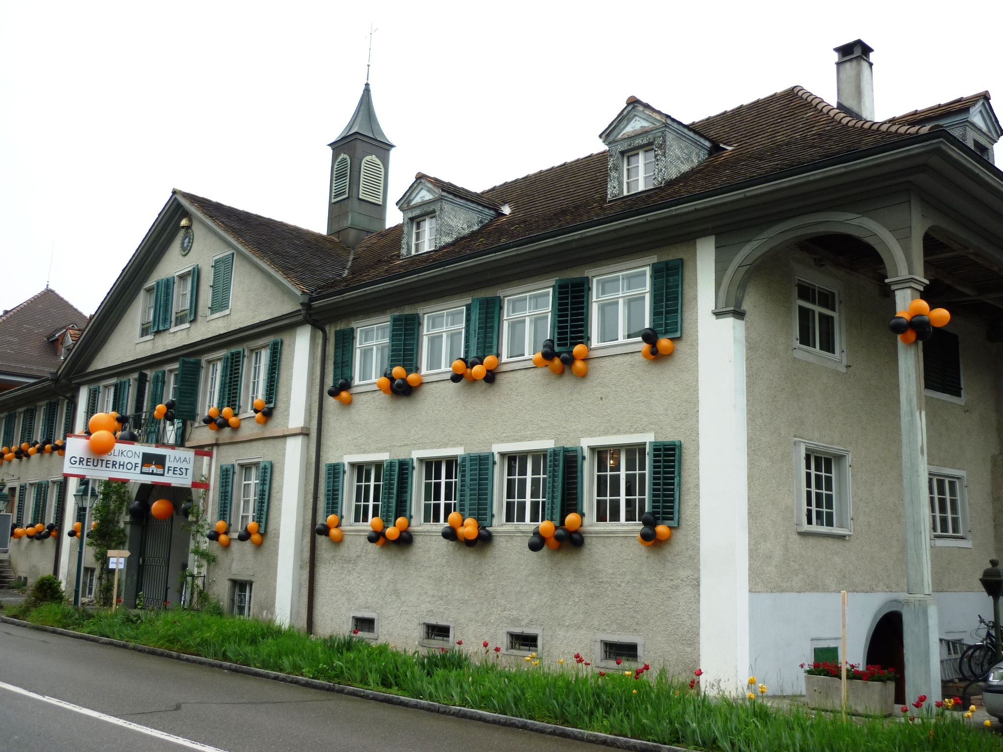 Greuterhof, Islikon TG, Switzerland